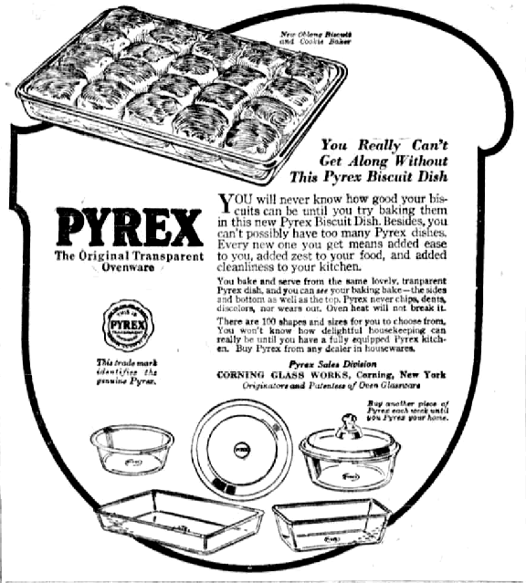 Newspaper ad showing various Pyrex baking dishes